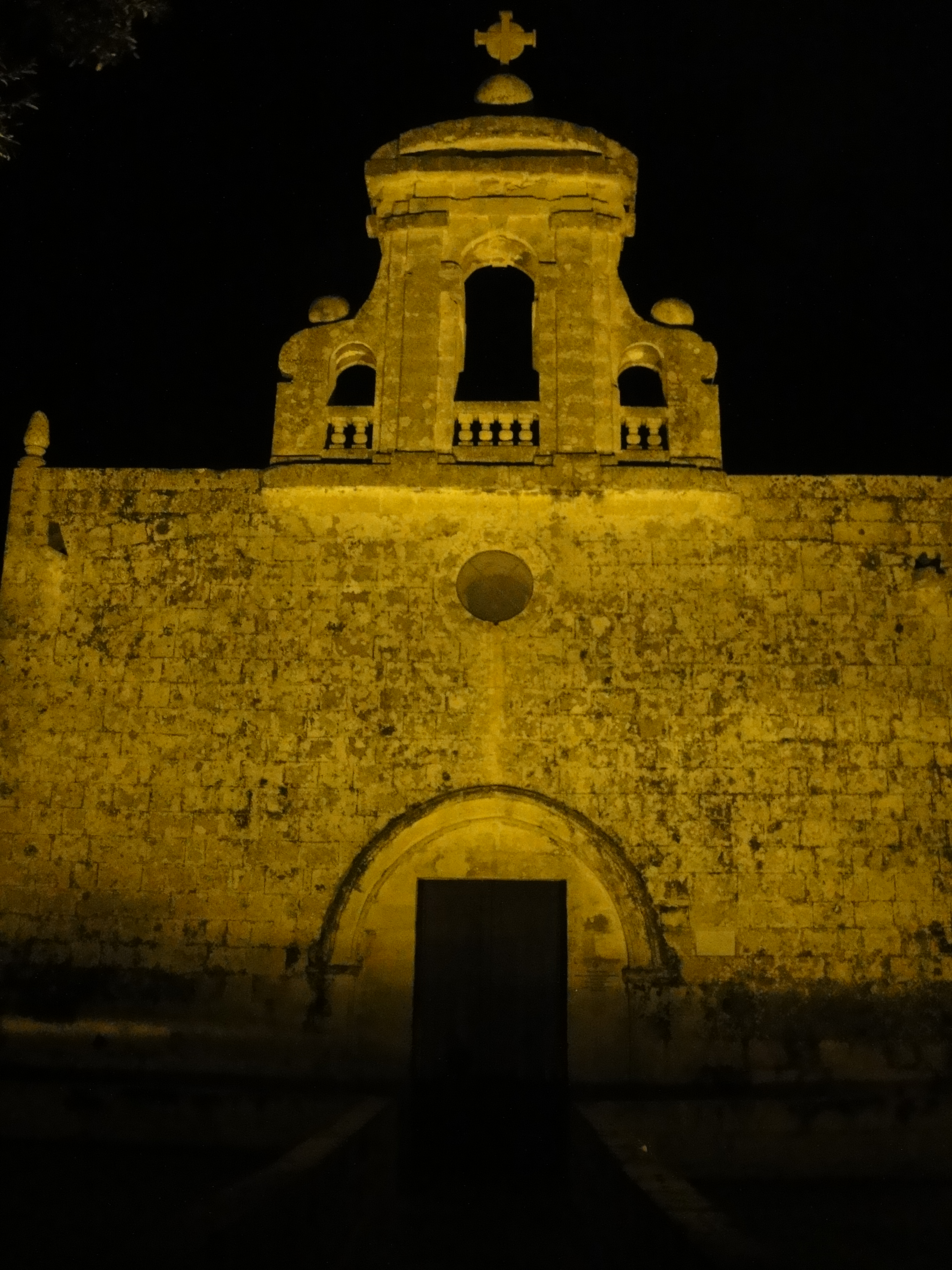 The façade of the medieval chapel of St Mary of Bir Miftuħ.